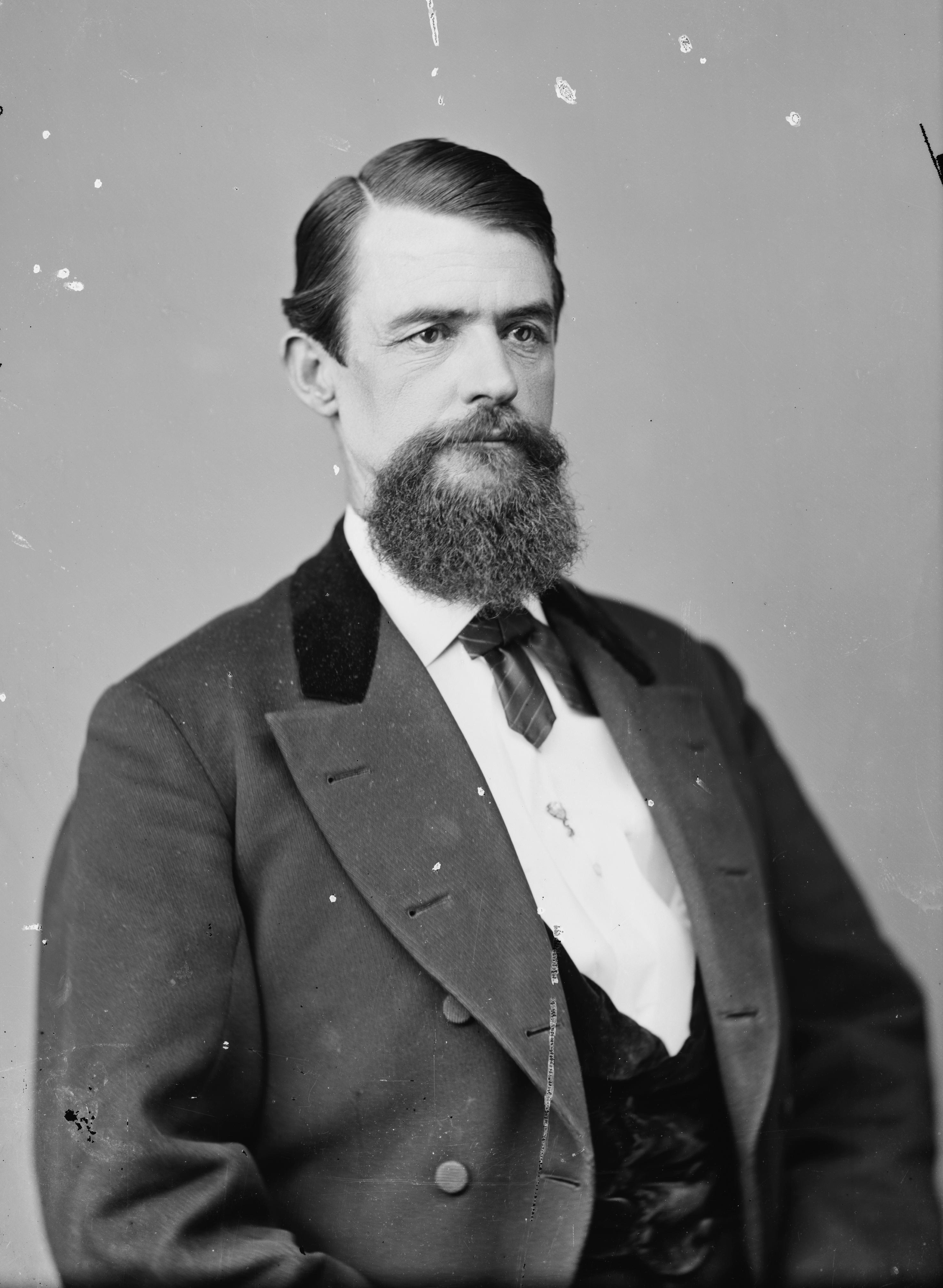 John Bullock Clark, Jr.. Library of Congress description: "Clark, Hon. John Bullock of MO (General in Confederate Army)"